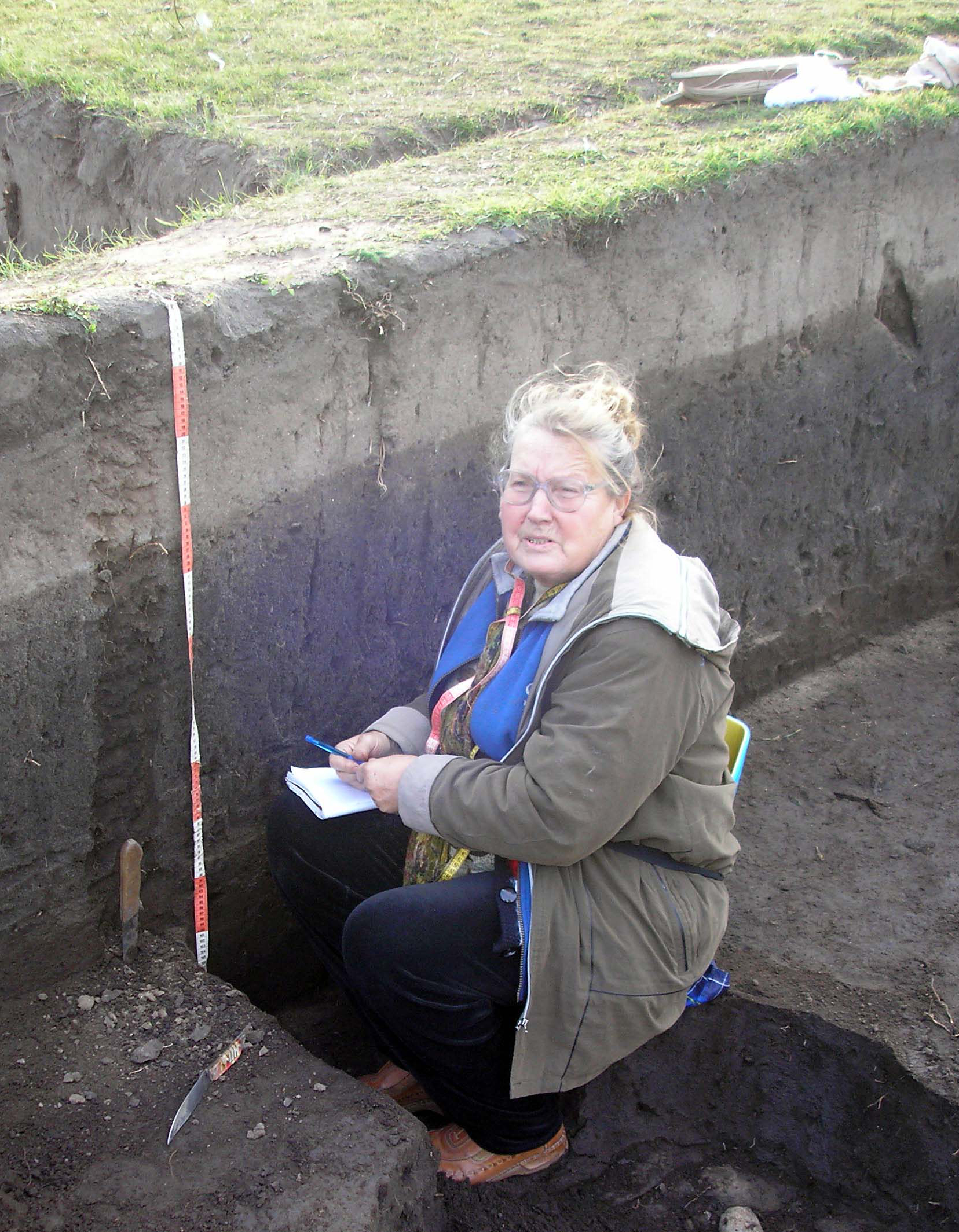 Zh.M. Matviishyna is investigating the burried soils, Ukraine, Mykolaiv region, 2008